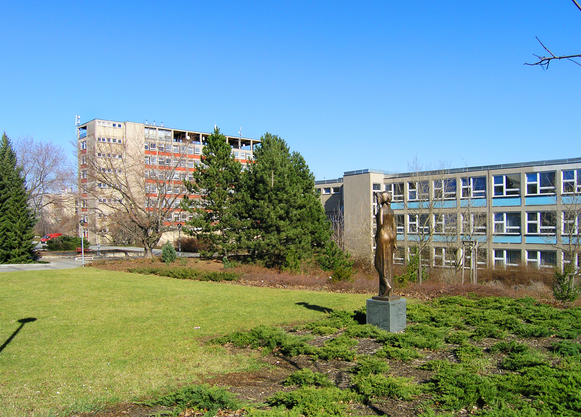 Czech University of Life Sciences Prague in Suchdol, Prague